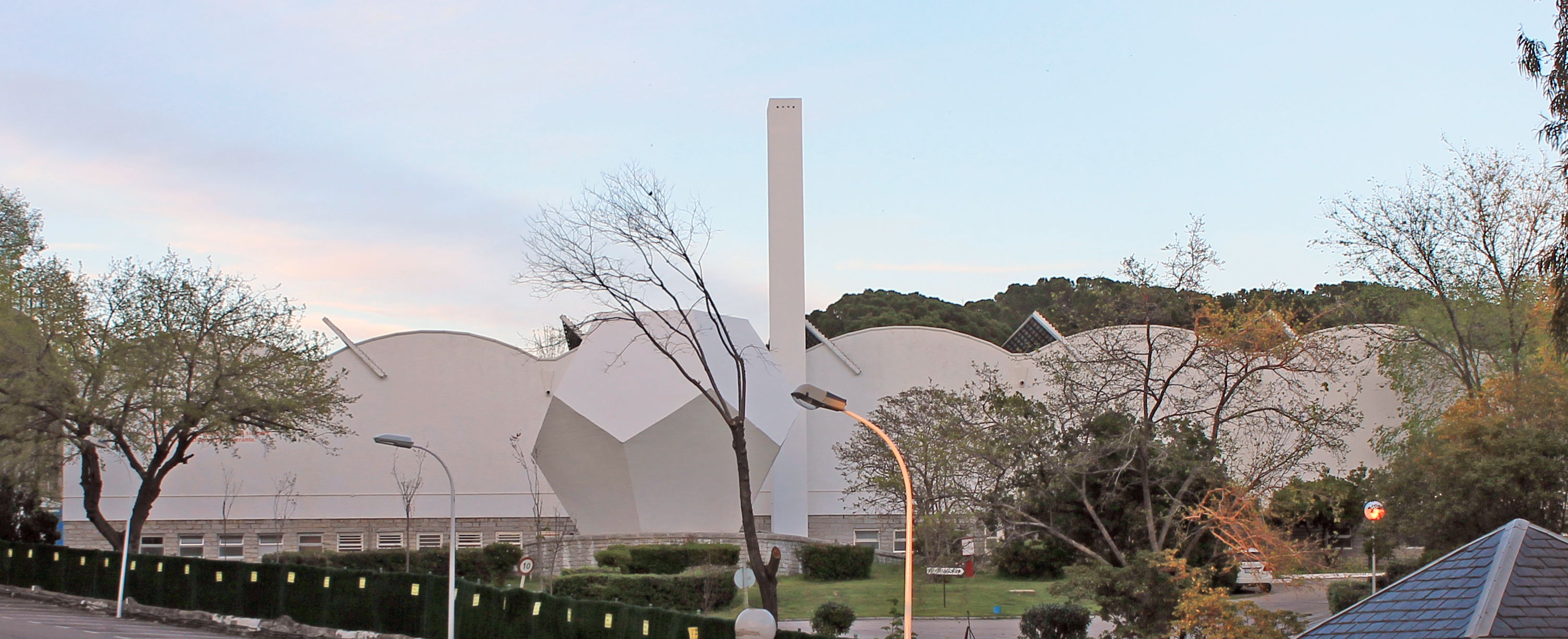 Headquarters of Eduardo Torroja Institute for Construction Science at 4th Calle de Serrano Galvache (street) in Madrid (Spain). They were designed by Manuel Barbero Rebolledo, Gonzalo Echegaray Comba and Eduardo Torroja, and built from 1951 to 1953.